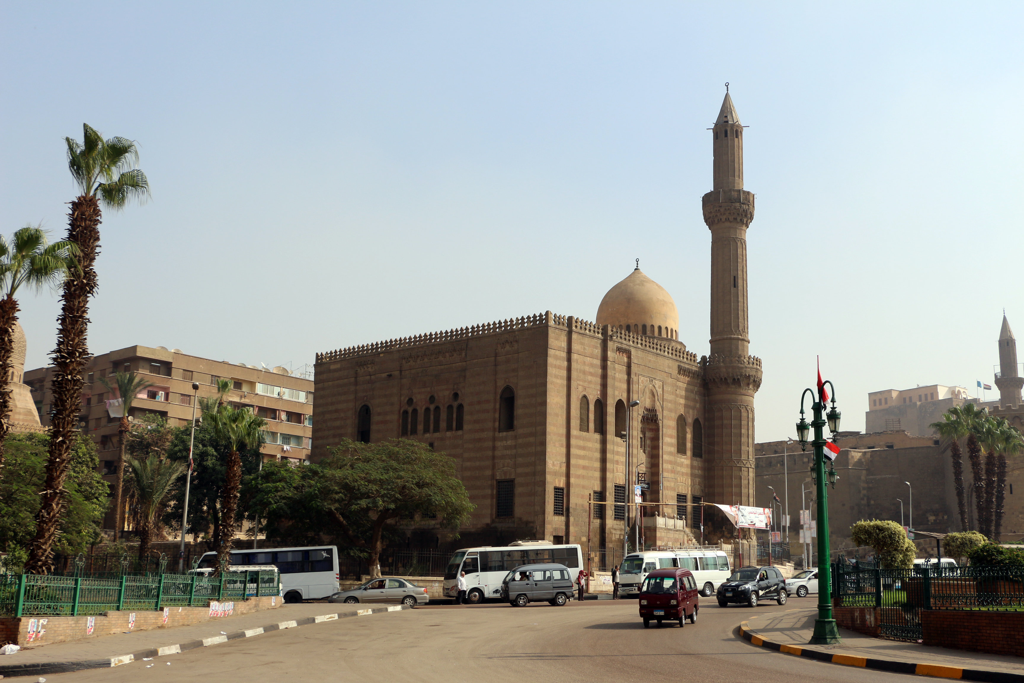 Al Mahmoudia Mosque